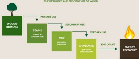 Maksimalno iskorištenje biomase